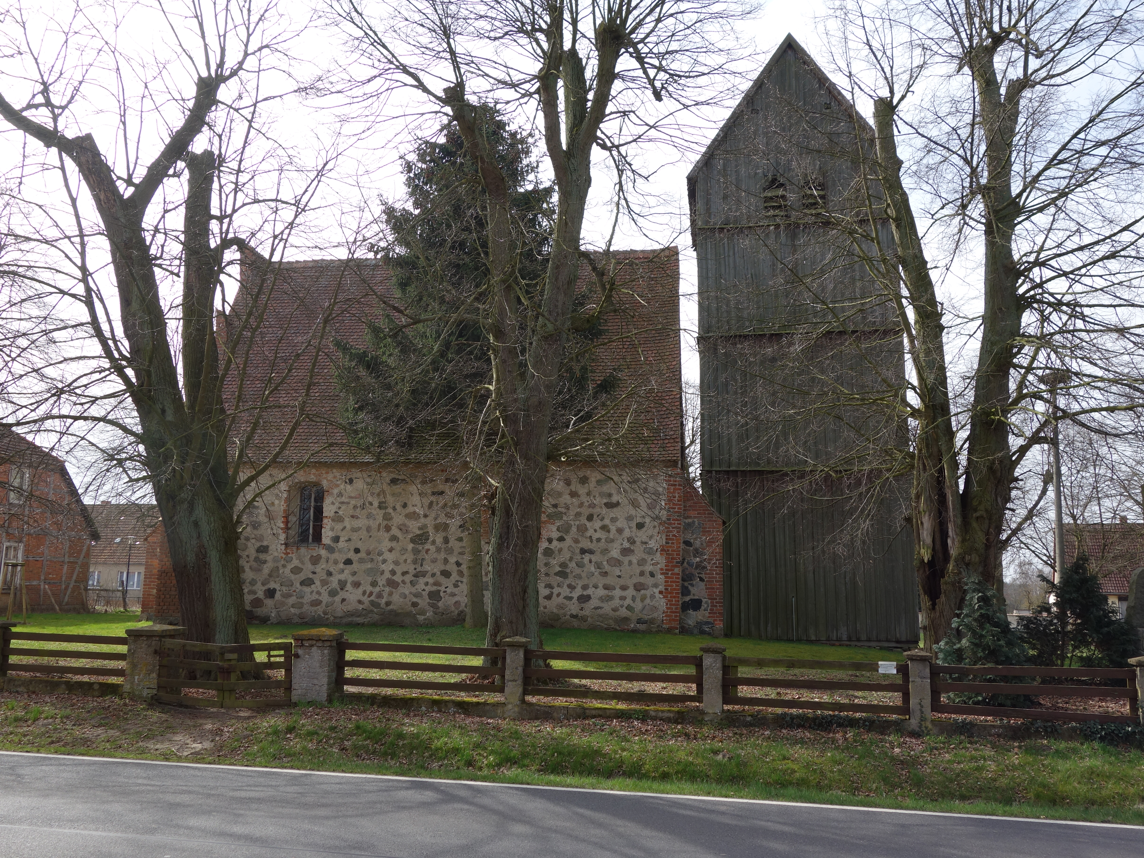 Northern view of church in Rossow, Wittstock municipality, Ostprignitz-Ruppin district, Brandenburg state, Germany